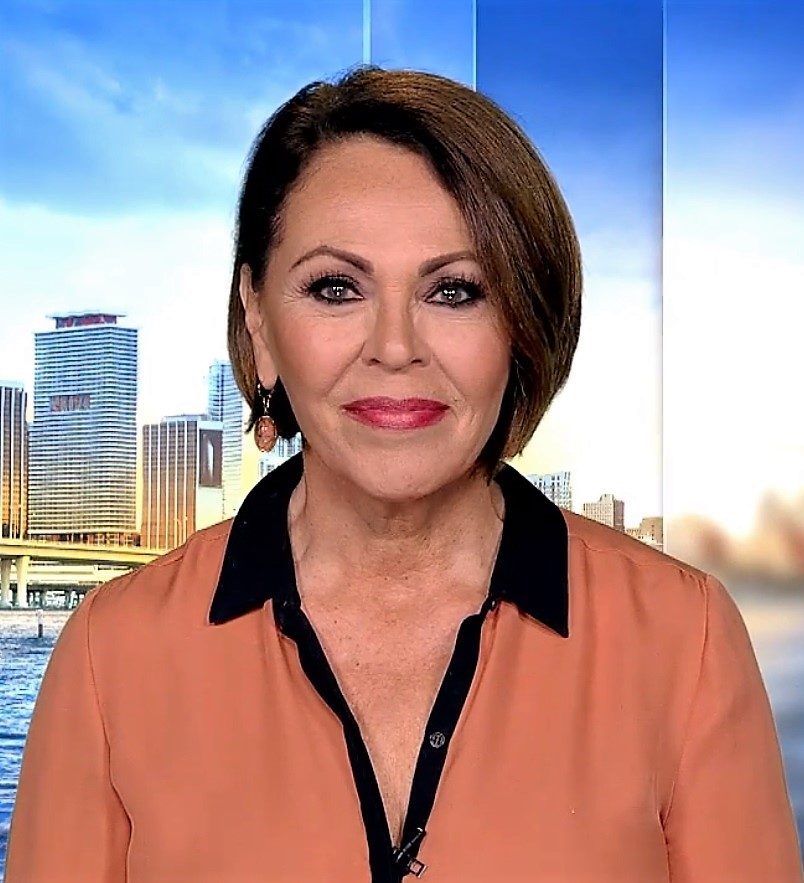 The Real Story Maria Elena Salinas The Real Story Maria Elena Salinas Valder Beebe Show